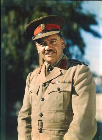 Portrait of VX13844 Brigadier (Brig) John Austin Chapman, DSO, Chief of Staff, 7th Division. Taken circa 1942.